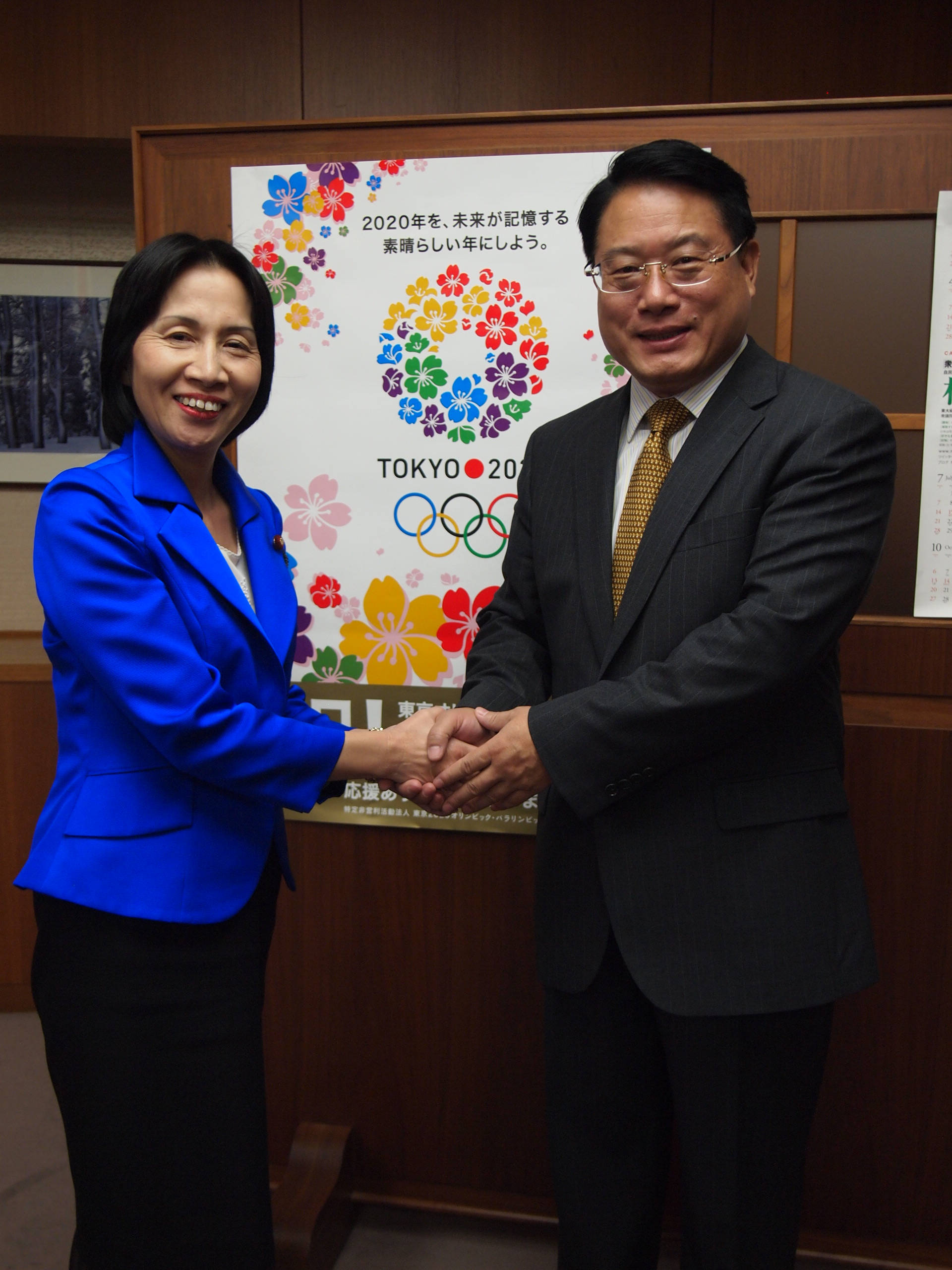 Li Yong, Director General of the United Nations Industrial Development Organization, met Midori Baba, Vice-Minister of Economy, Trade and Industry, at the Ministry of International Trade and Industry in Chiyoda Ward, Tōkyō Metropolis on November 5, 2013.